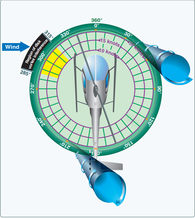 Main rotor disk vortex interference